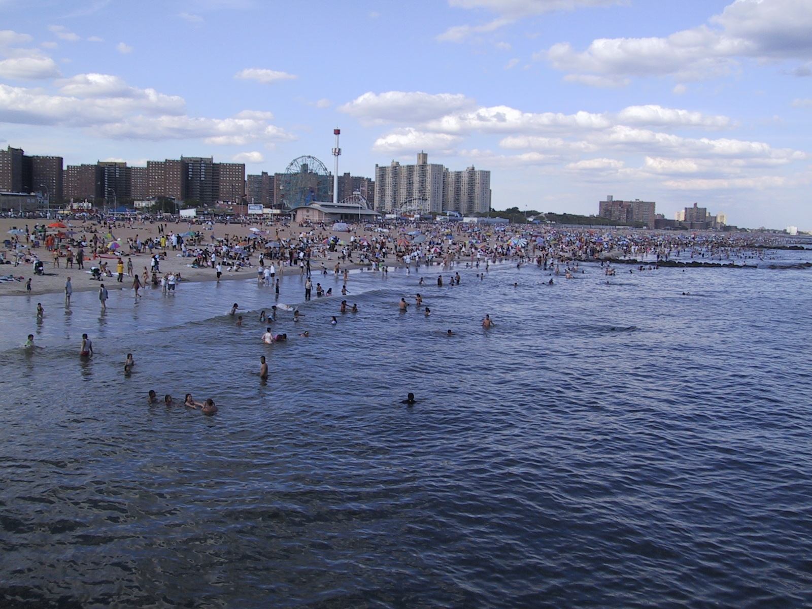 Beach patronage on Coney Island, New York on a summer day of 2006.